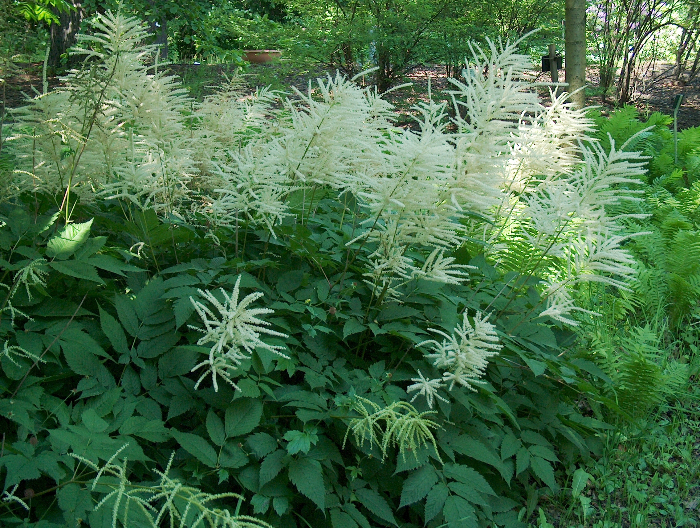 Aruncus dioicus, Goatsbeard or Bride's Feathers in The University of Helsinki Botanical Garden in Kaisaniemi, Finland